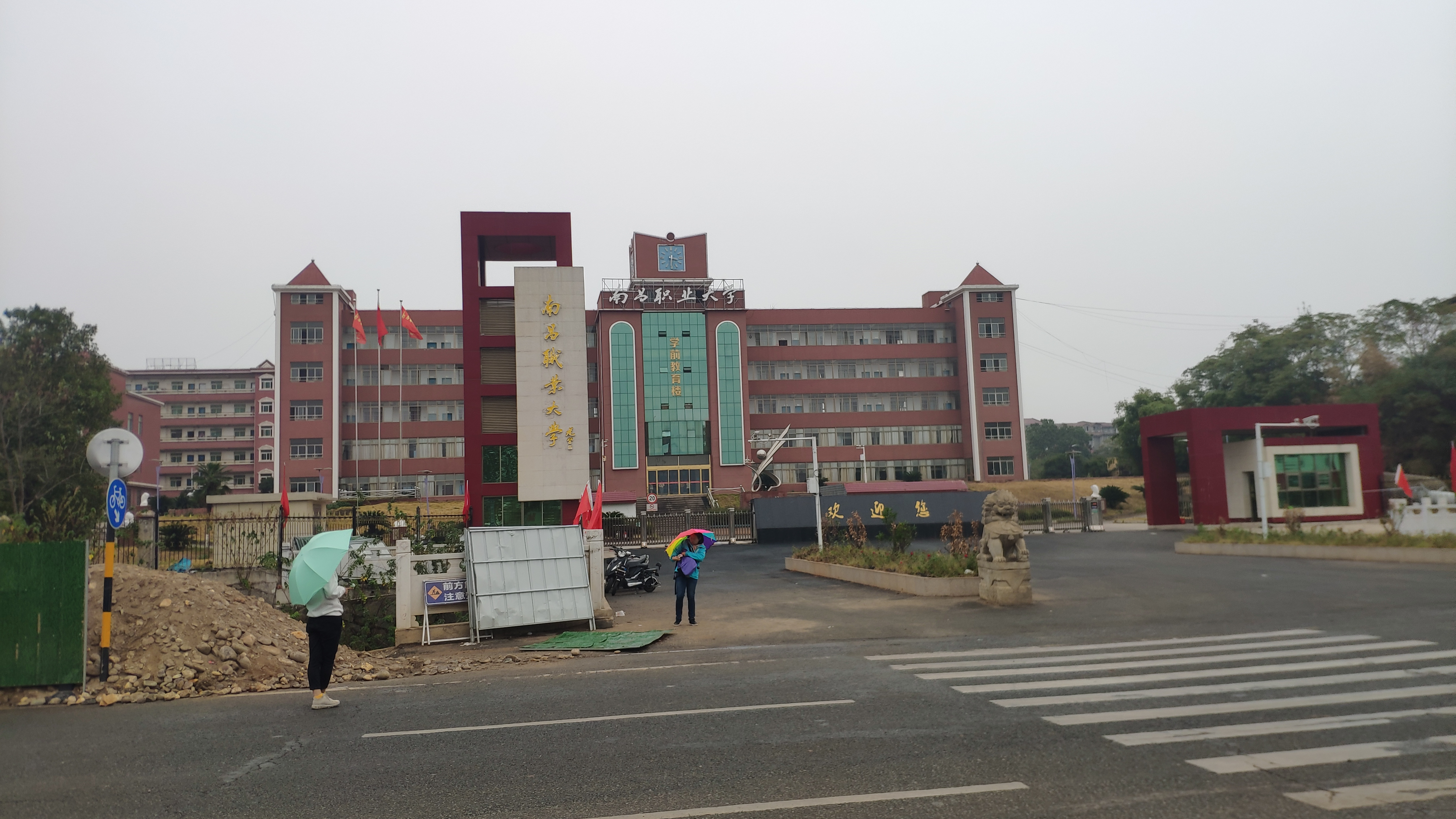 Nanchang Vocational College